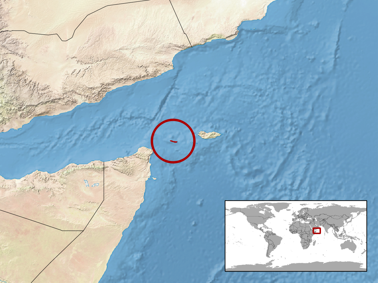 geographic distribution of Hemidactylus forbesii (Native: Yemen (Socotra))